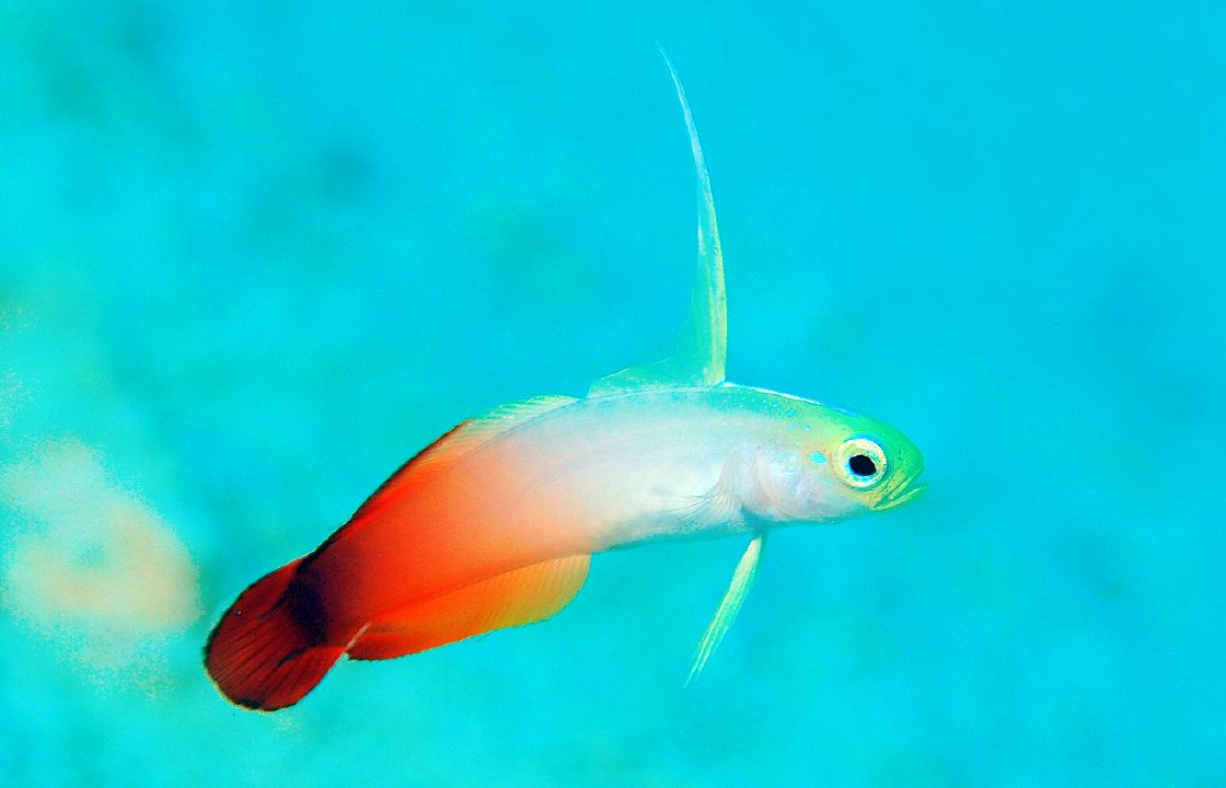 Nemateleotris magnifica (fire dartfish)